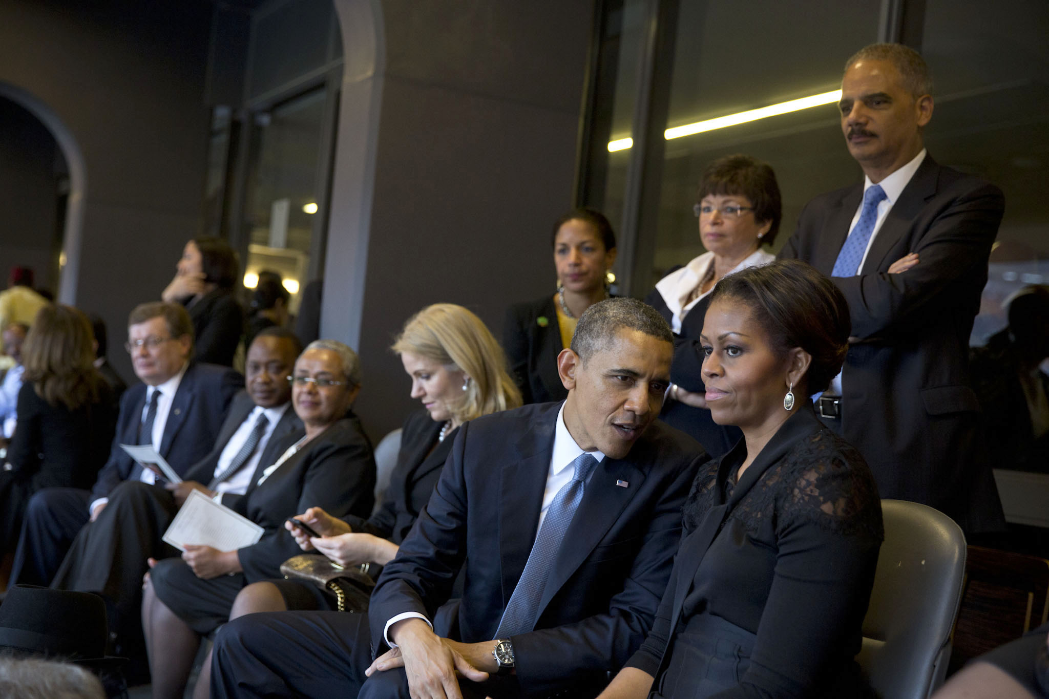 President Obama talks with the First Lady with other world leaders seated nearby. In the background are National Security Advisor Susan E. Rice, Valerie Jarrett, and Attorney General Eric Holder. (Official White House Photo by Pete Souza)